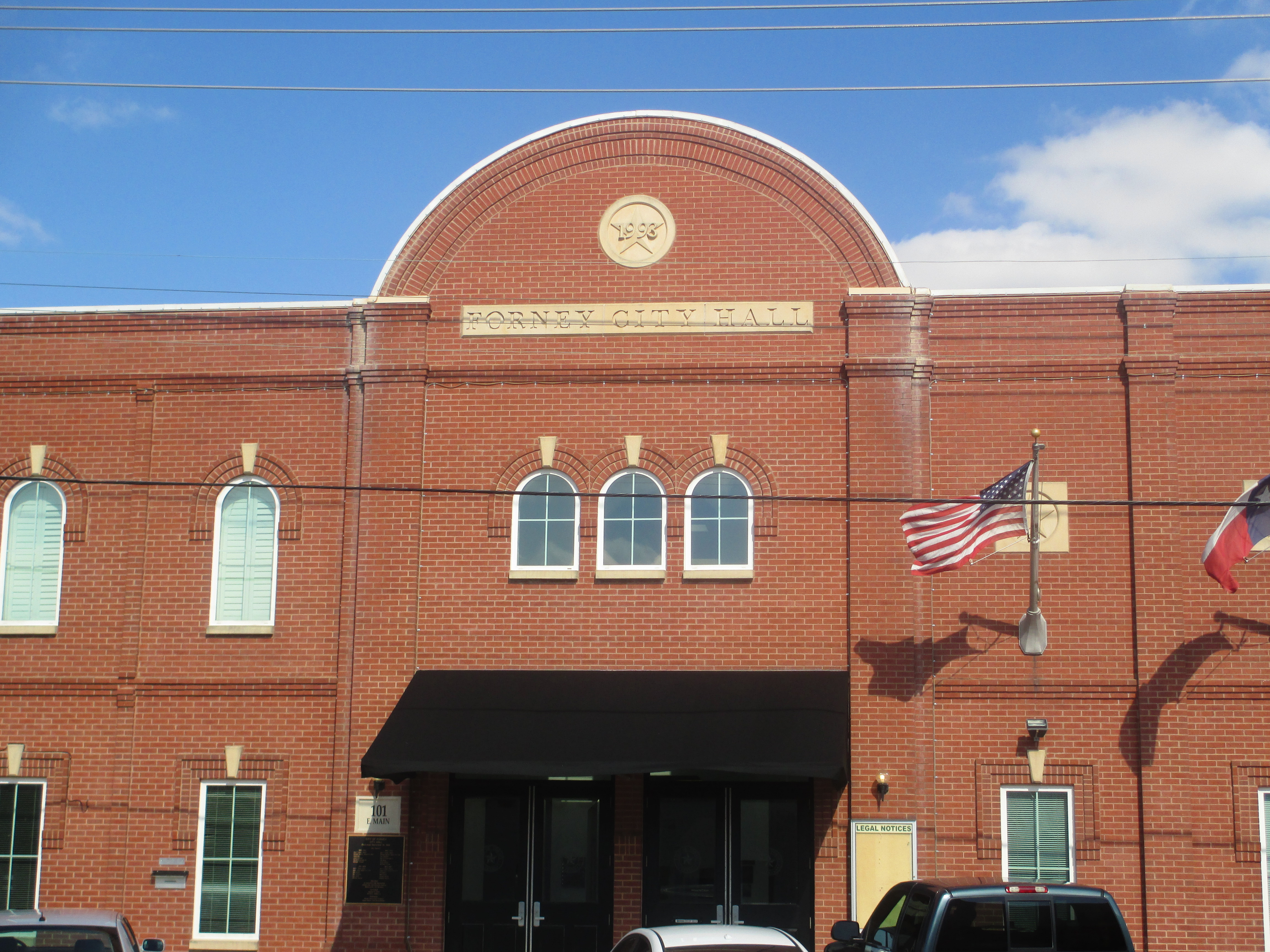 I took photo with Canon camera in Forney, TX.